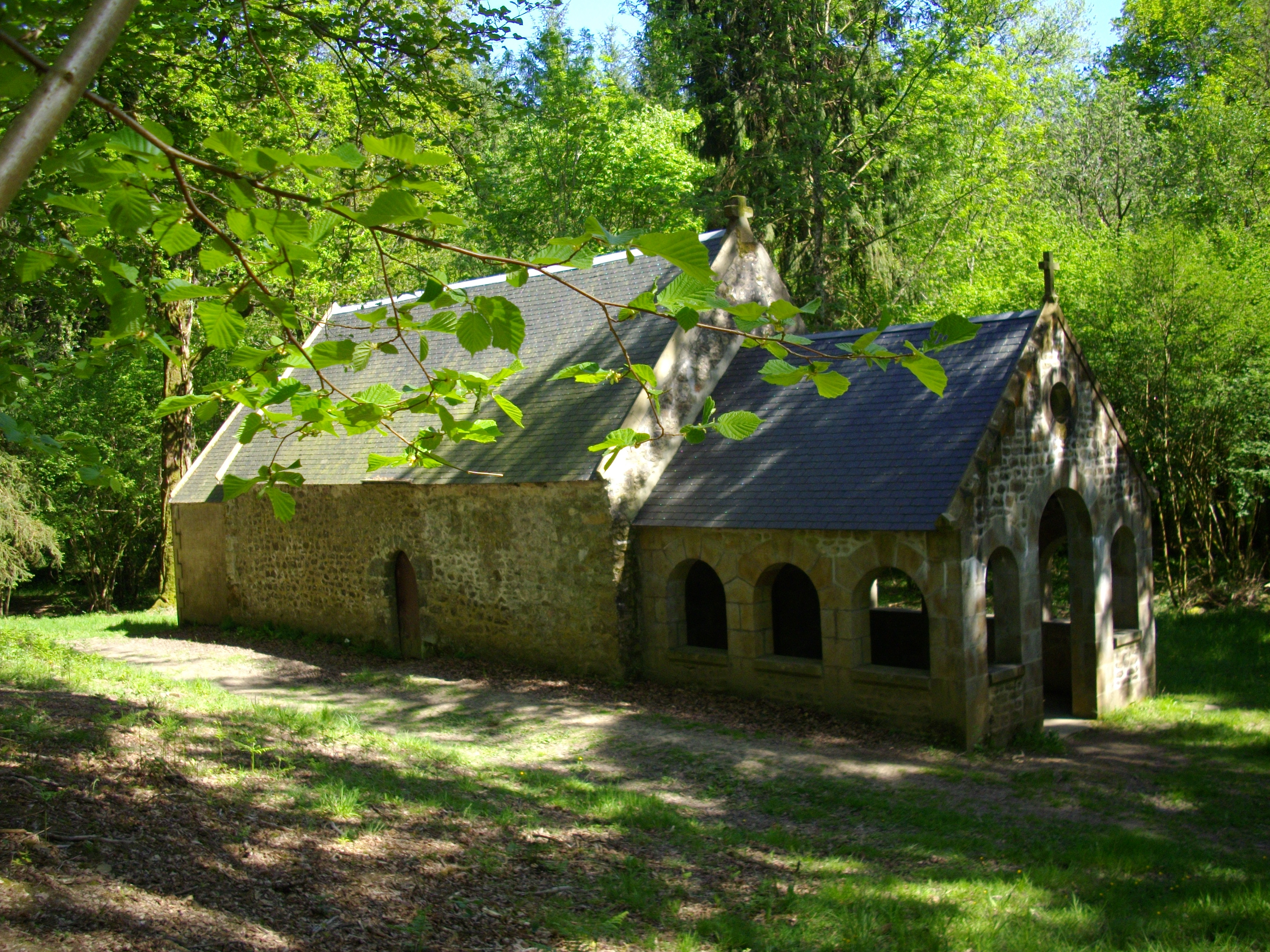 Saint-Antoine Chapel, Magny-le-Désert (Andaines forest, Basse-Normandie, France)